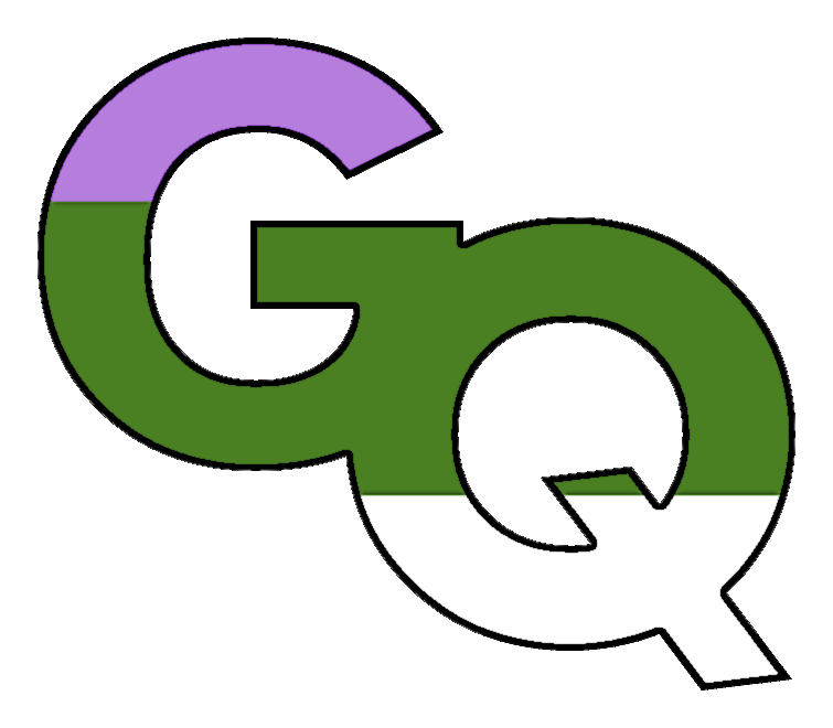 An interlocked 'G' and 'Q' symbolizing Genderqueer